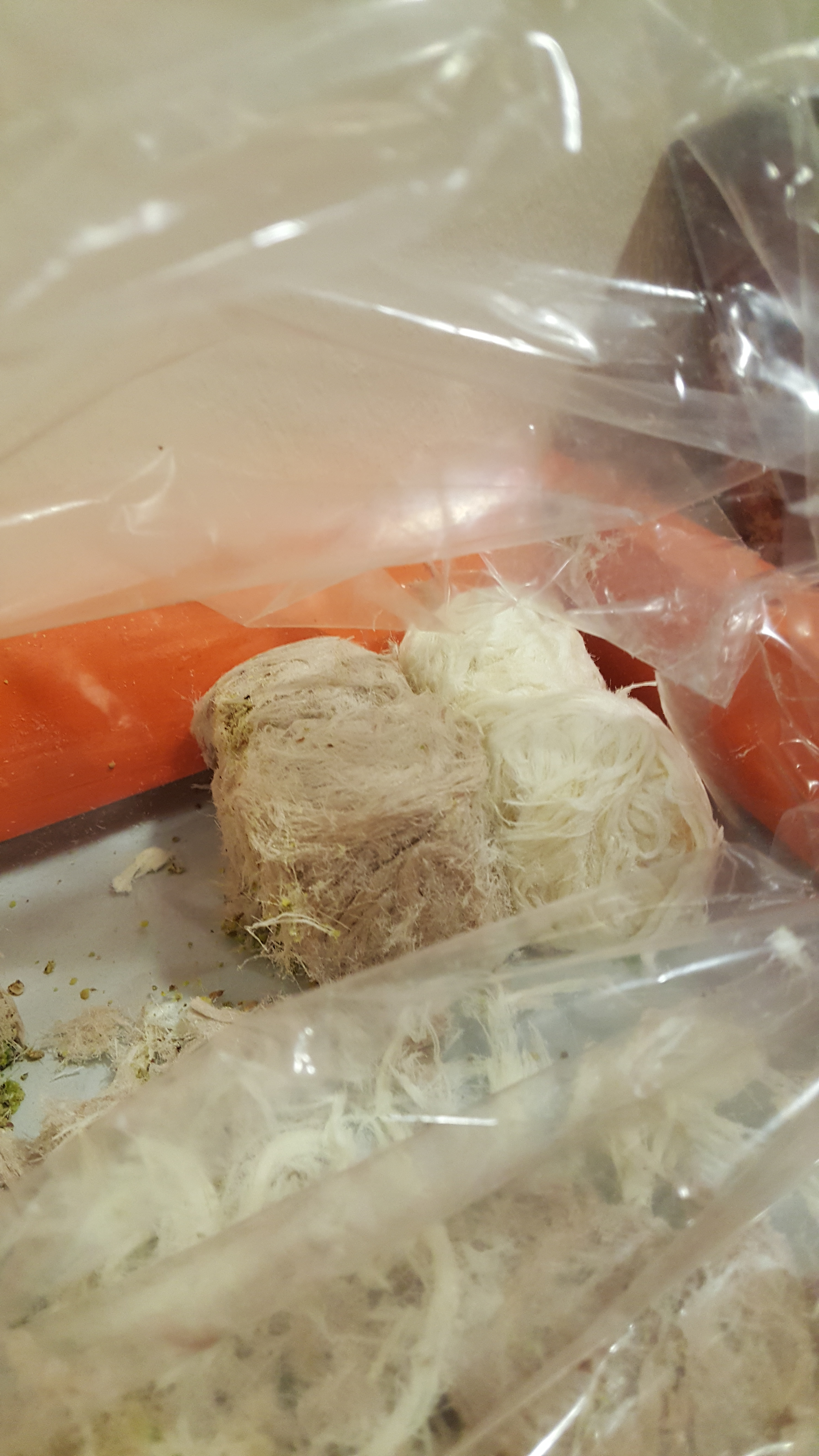 Pismaniye, a kind of Turkish sweet